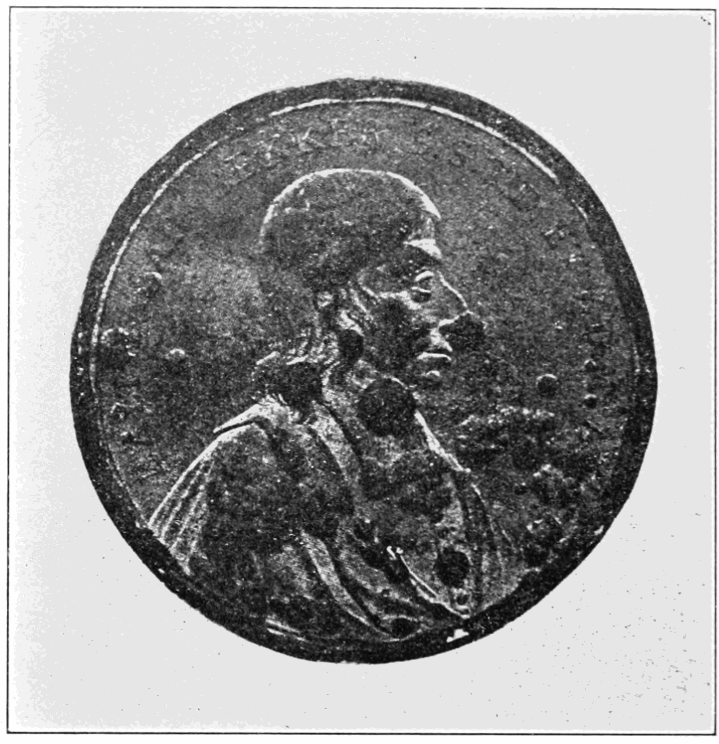 Two hundred year old medal affected by tin disease